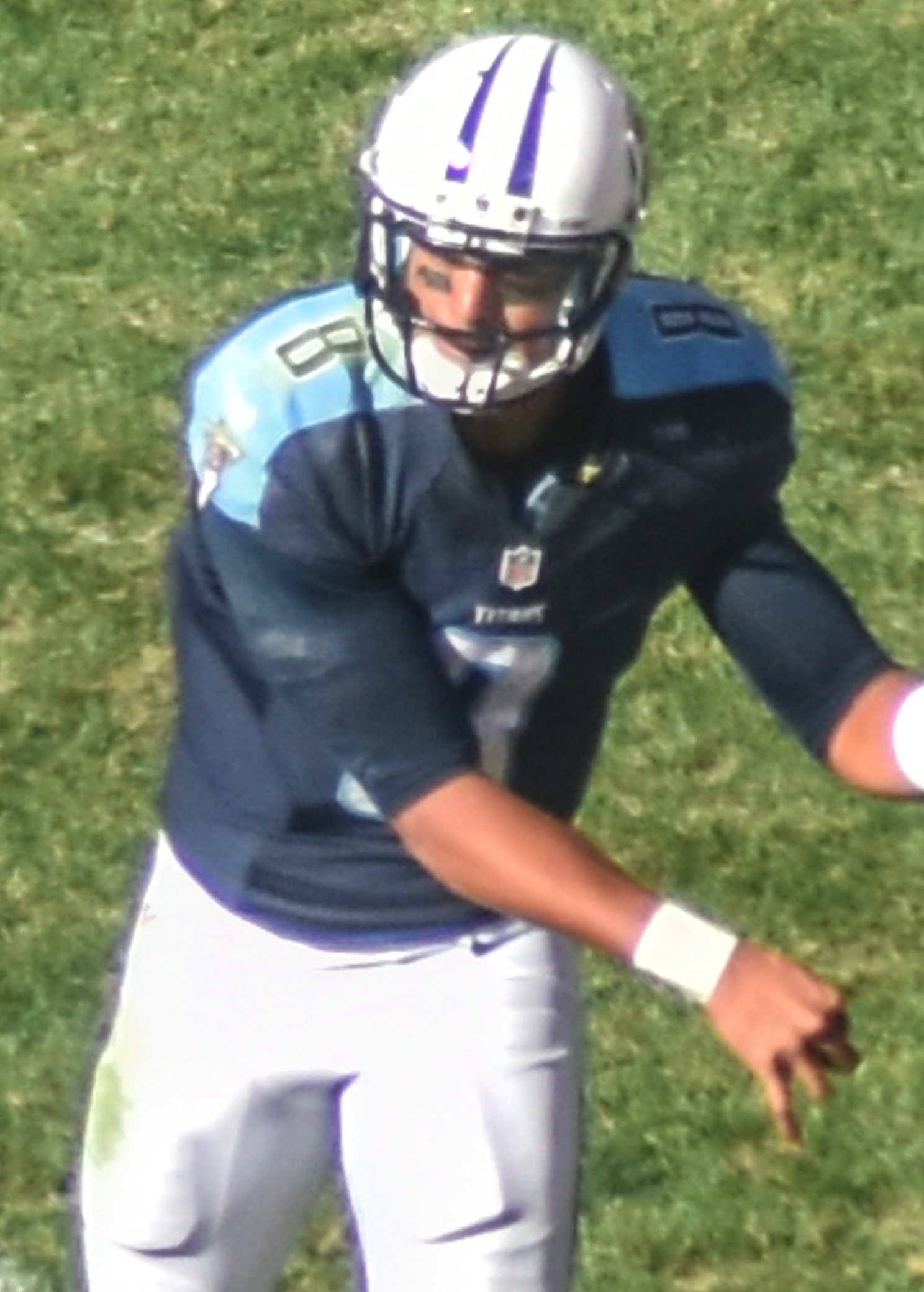 Titans at Browns 2015